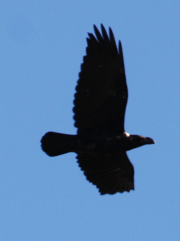 White-necked Raven (Corvus albicollis), Kirstenbosch Botanical Gardens, South Africa.